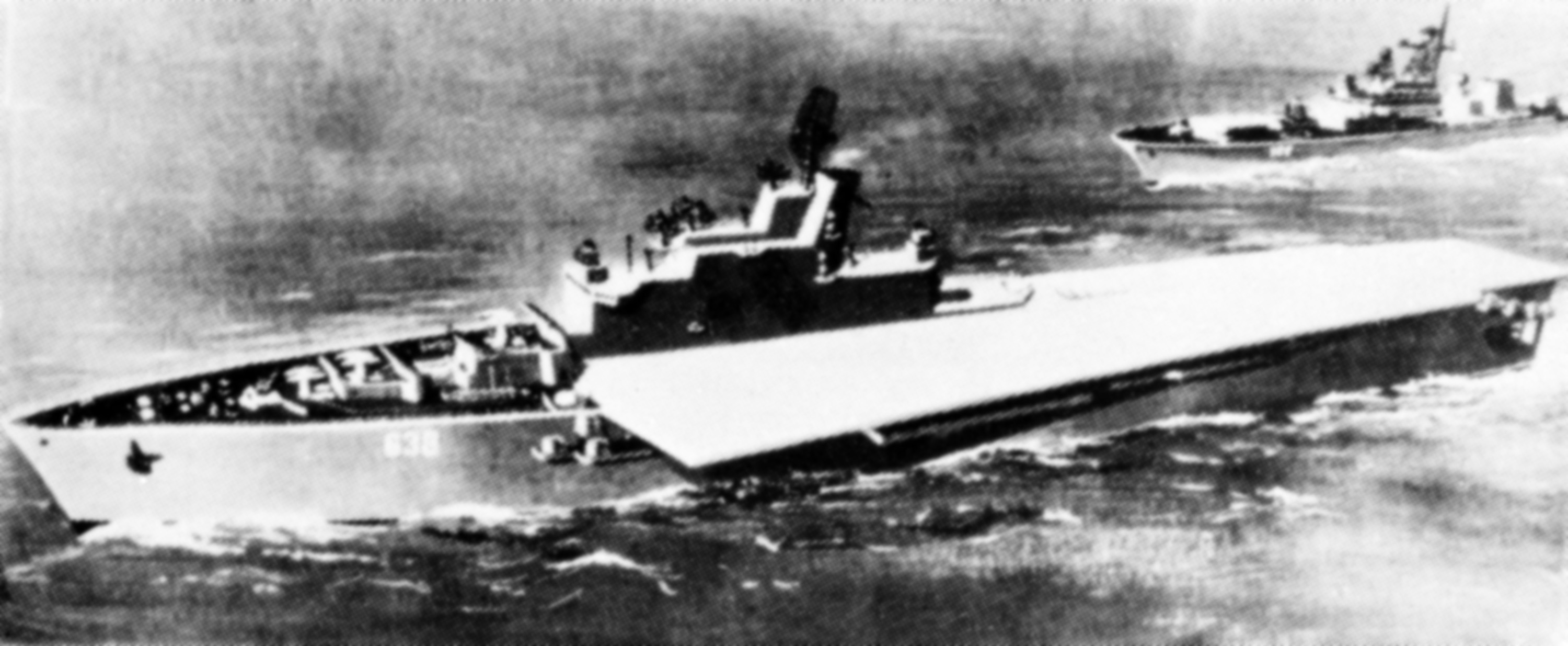 Artist concept of a third Soviet Moskva-class helicopter carrier «Kiev» (project 1123.3).